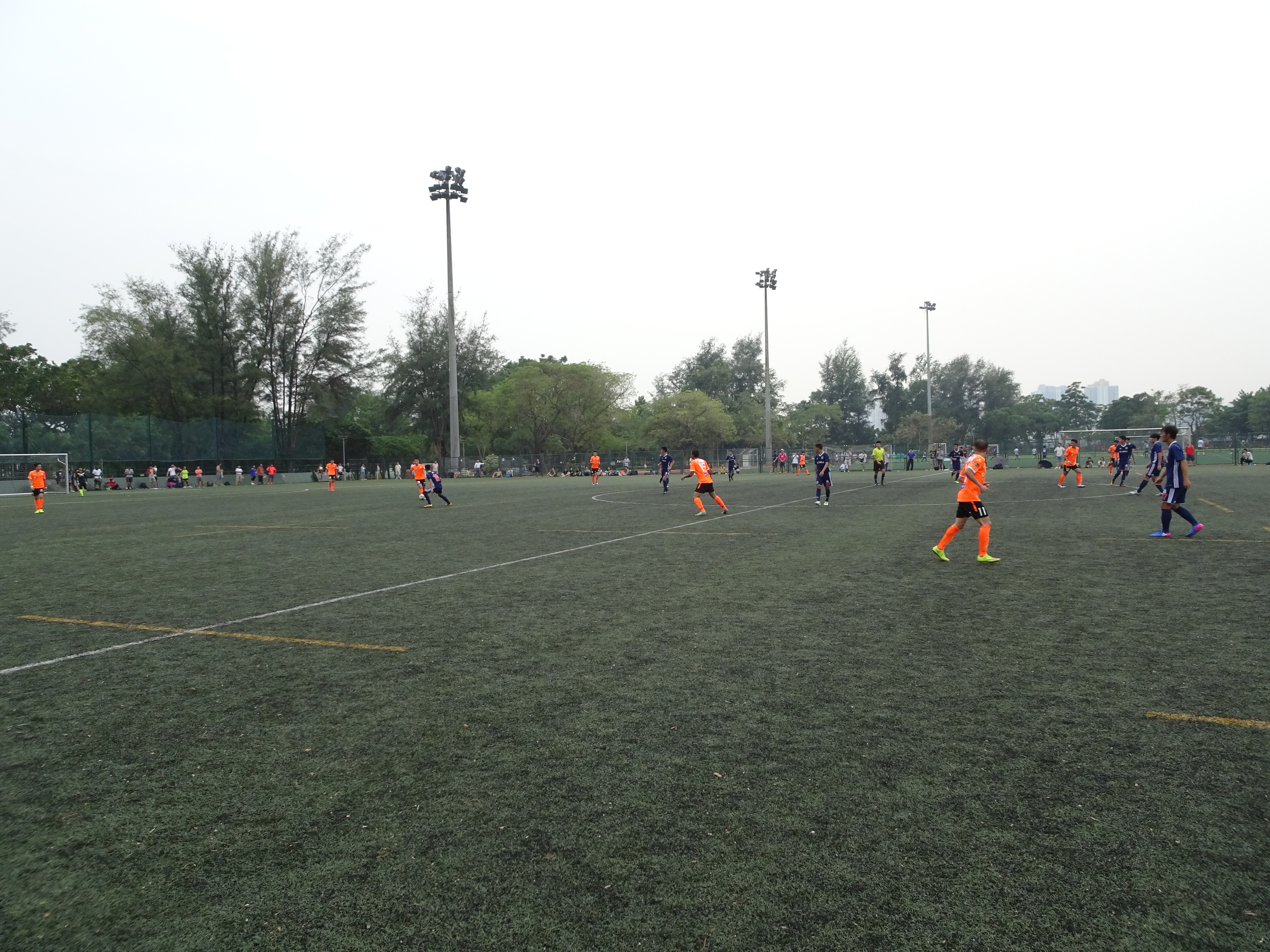 3 Sept 2017, Hong Kong First Division, Sun Hei vs South China, Kowloon Tsai Park